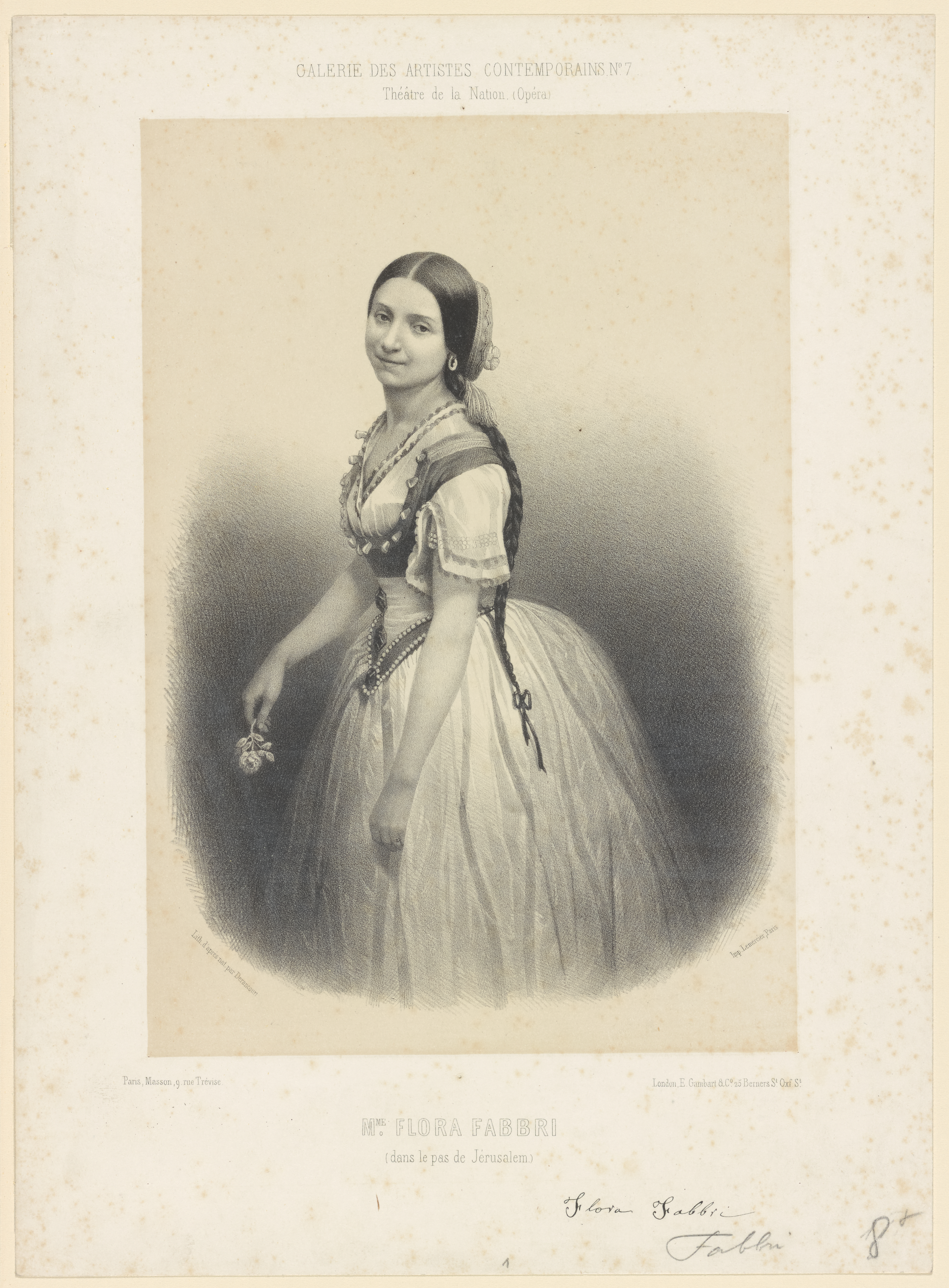 Three-quarter length to left, looking front, in Italian costume, holding flower in right hand.